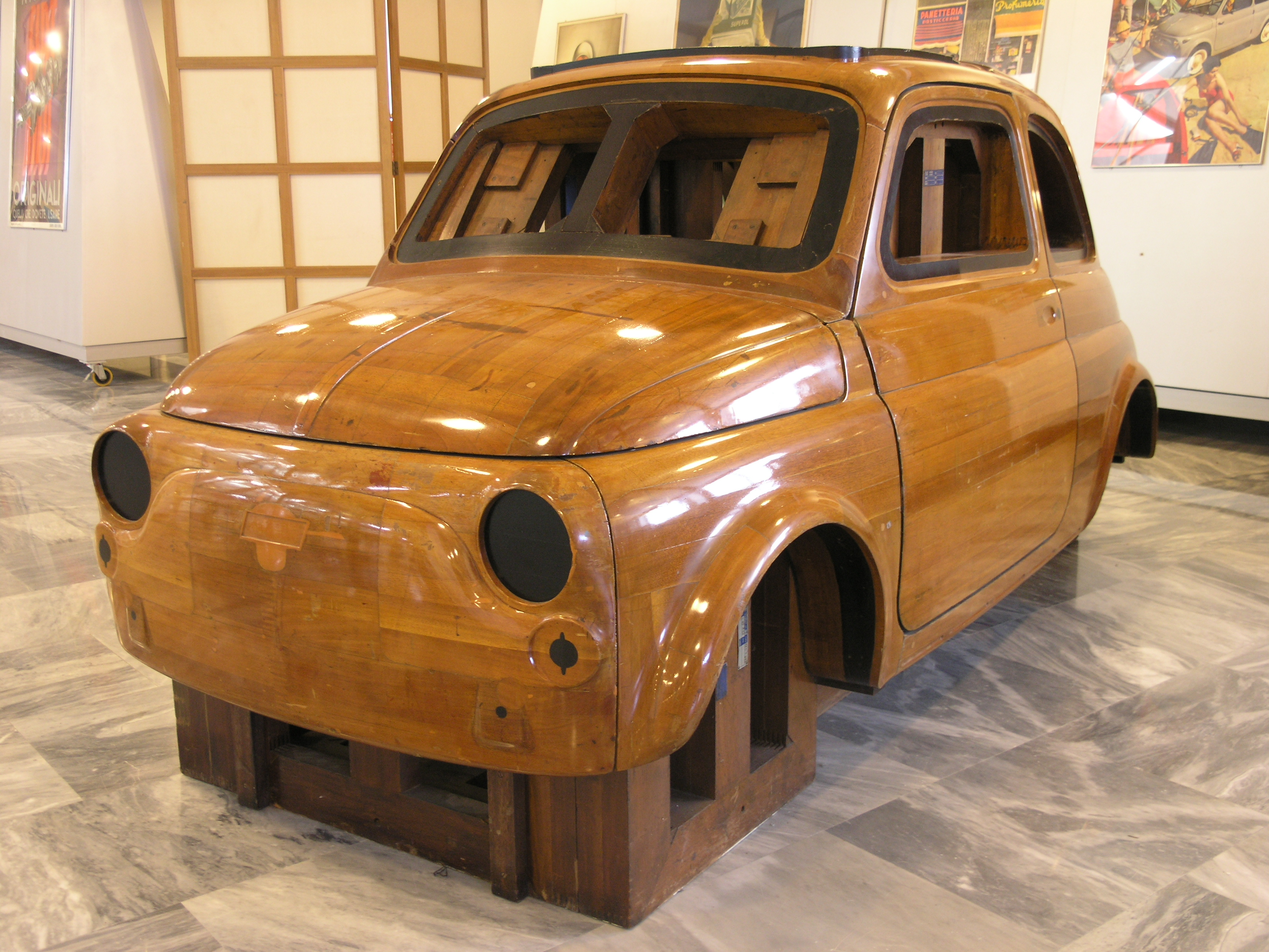 Centro Stile Fiat: Wood mould for Fiat 500, 1956. Wood: 135x275x120 cm Manufactured between the years 1956 and 1964. Centro Storico Fiat, Turin